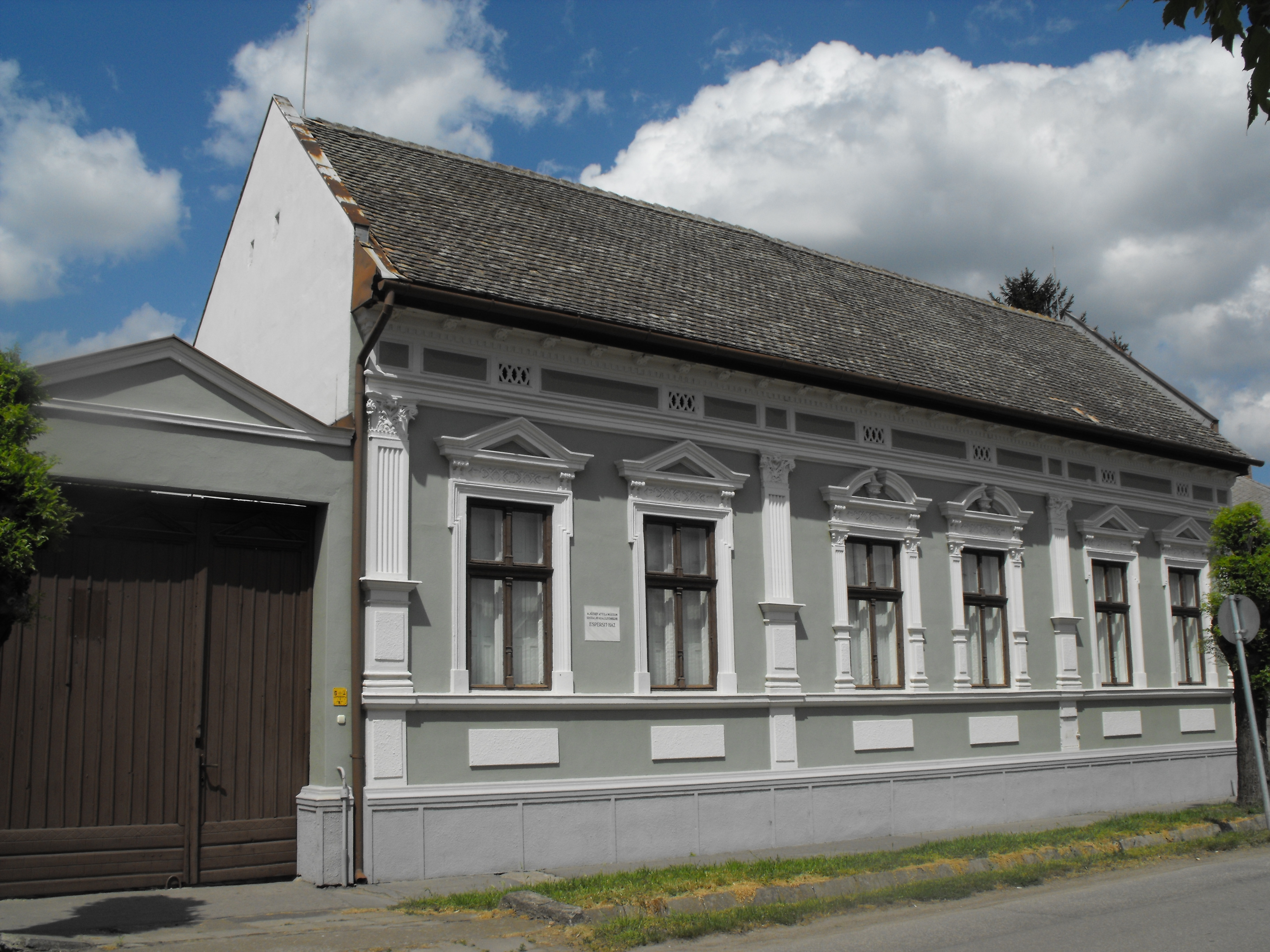 The Espersit House, museum of literature in Makó, Hungary.